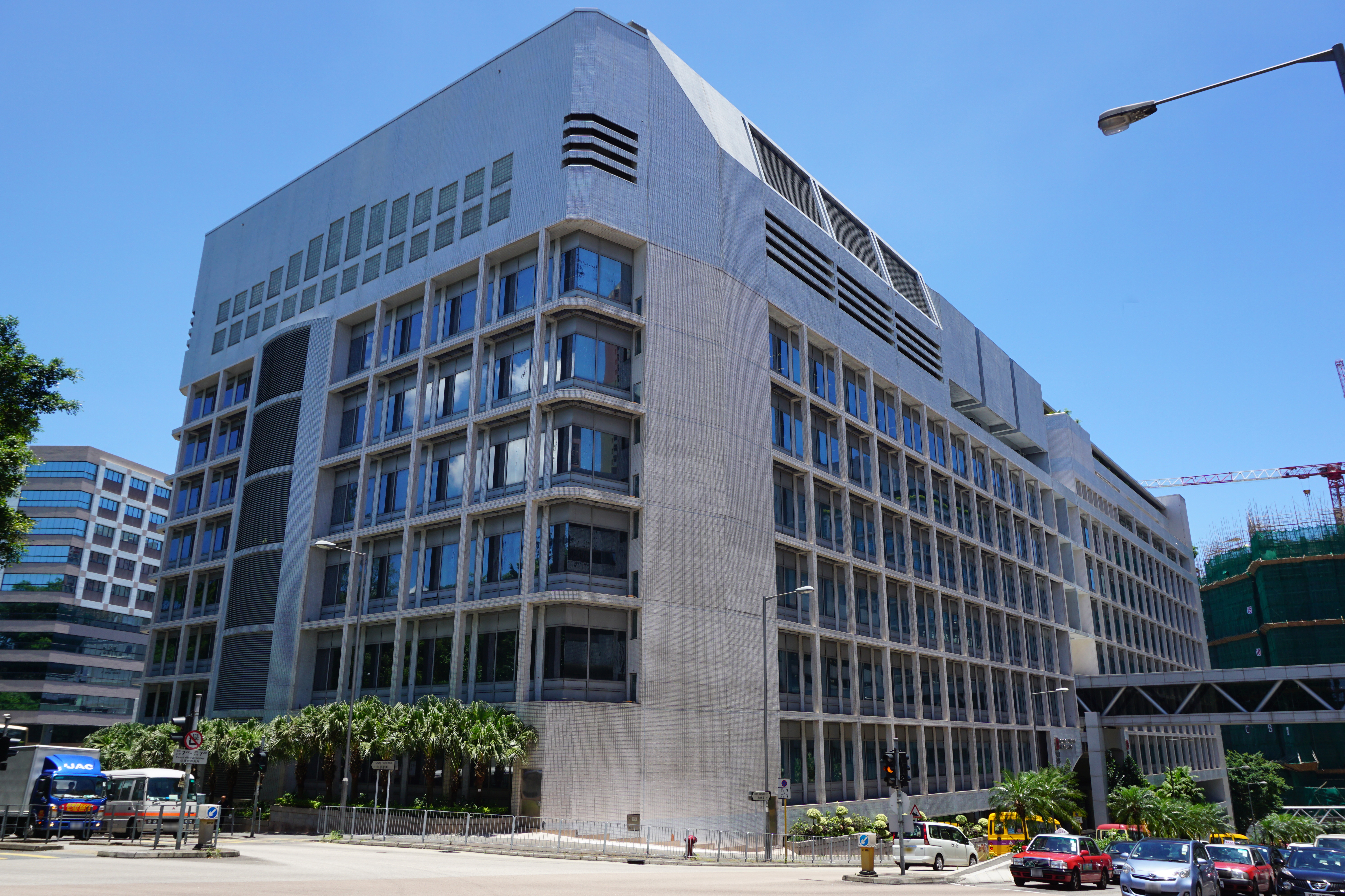 Headquarters of Hong Kong Housing Authority in Ho Man Tin, Hong Kong.